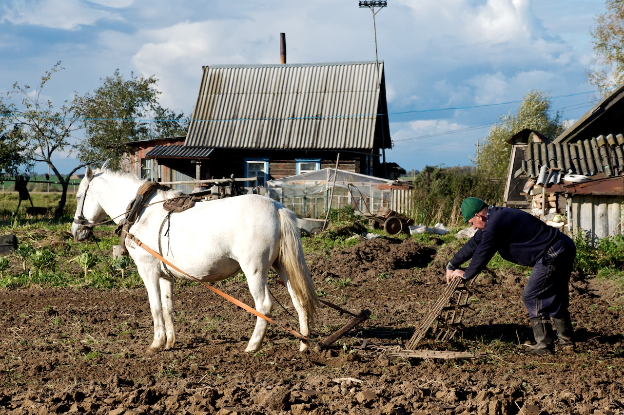 Harrowing by horse in Belorus